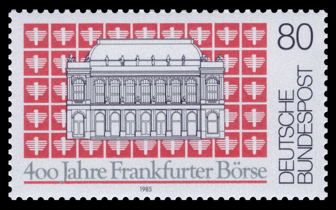 400 years of “Frankfurt Bourse”